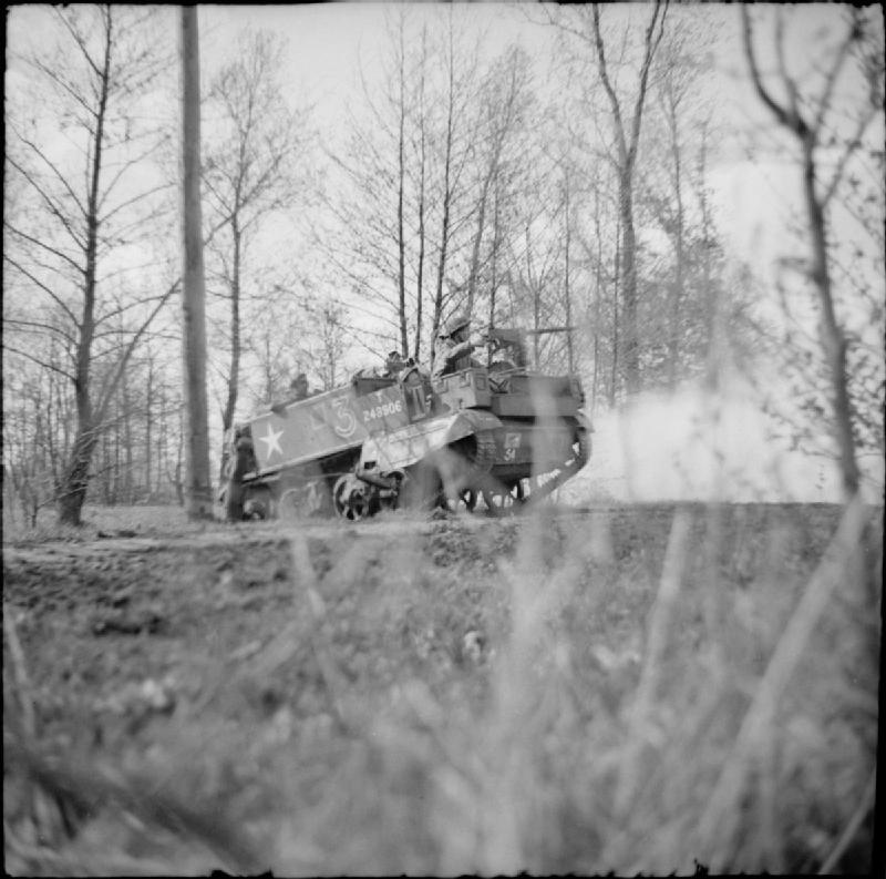 The British Army in North-west Europe 1944-45 Universal carrier of 12th King's Royal Rifle Corps, 8th Armoured Brigade with .30 cal Browning machine-gun in action against a German MG position, Holland, 2 April 1945.